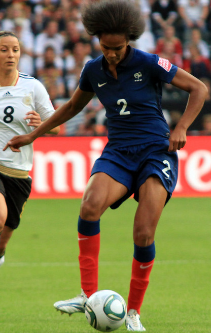 Wendie Renard playing for France in the 2011 FIFA Women's World Cup